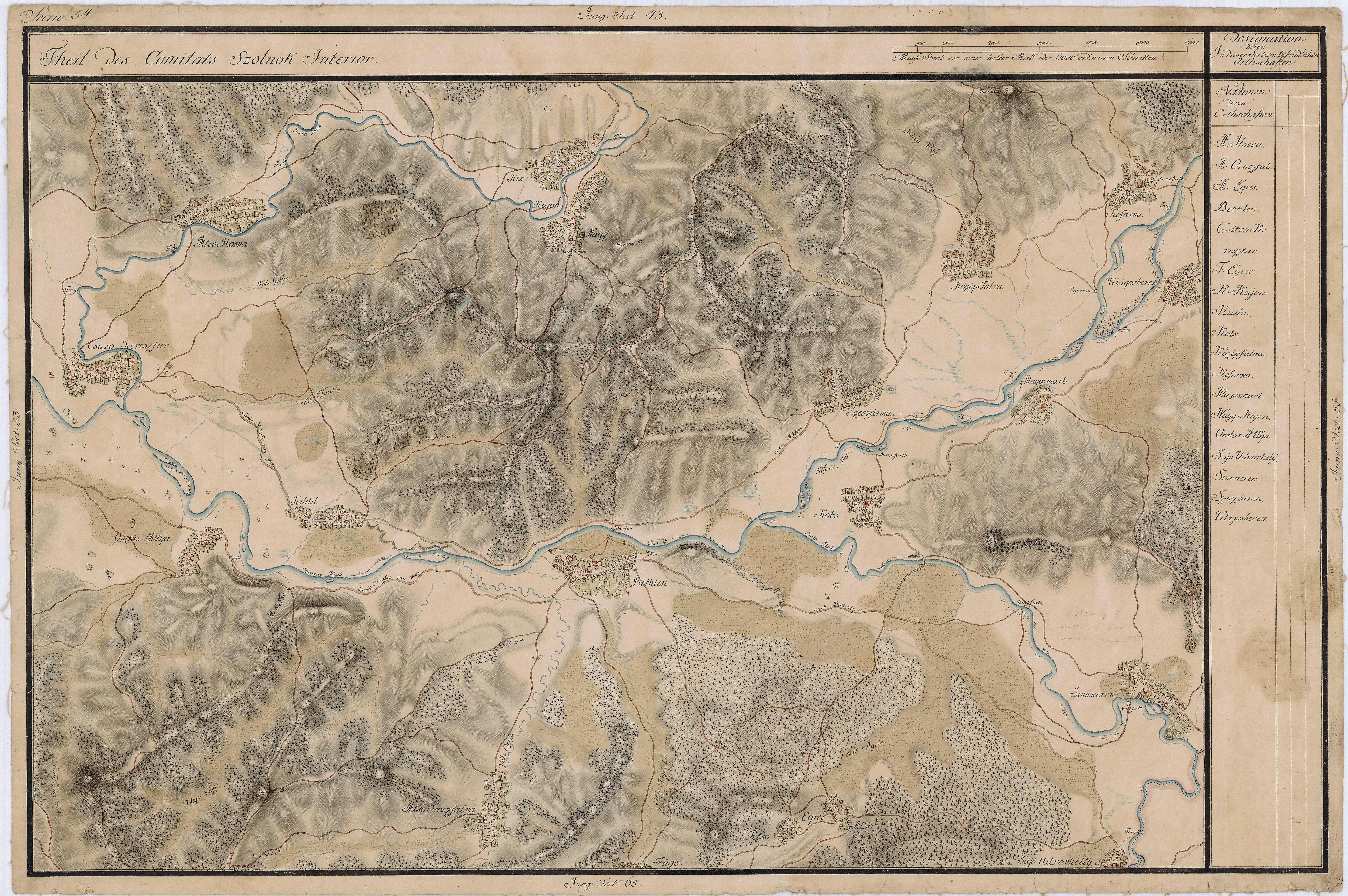 Grand Duchy of Transylvania, 1769-1773. Josephinische Landaufnahme pg.054